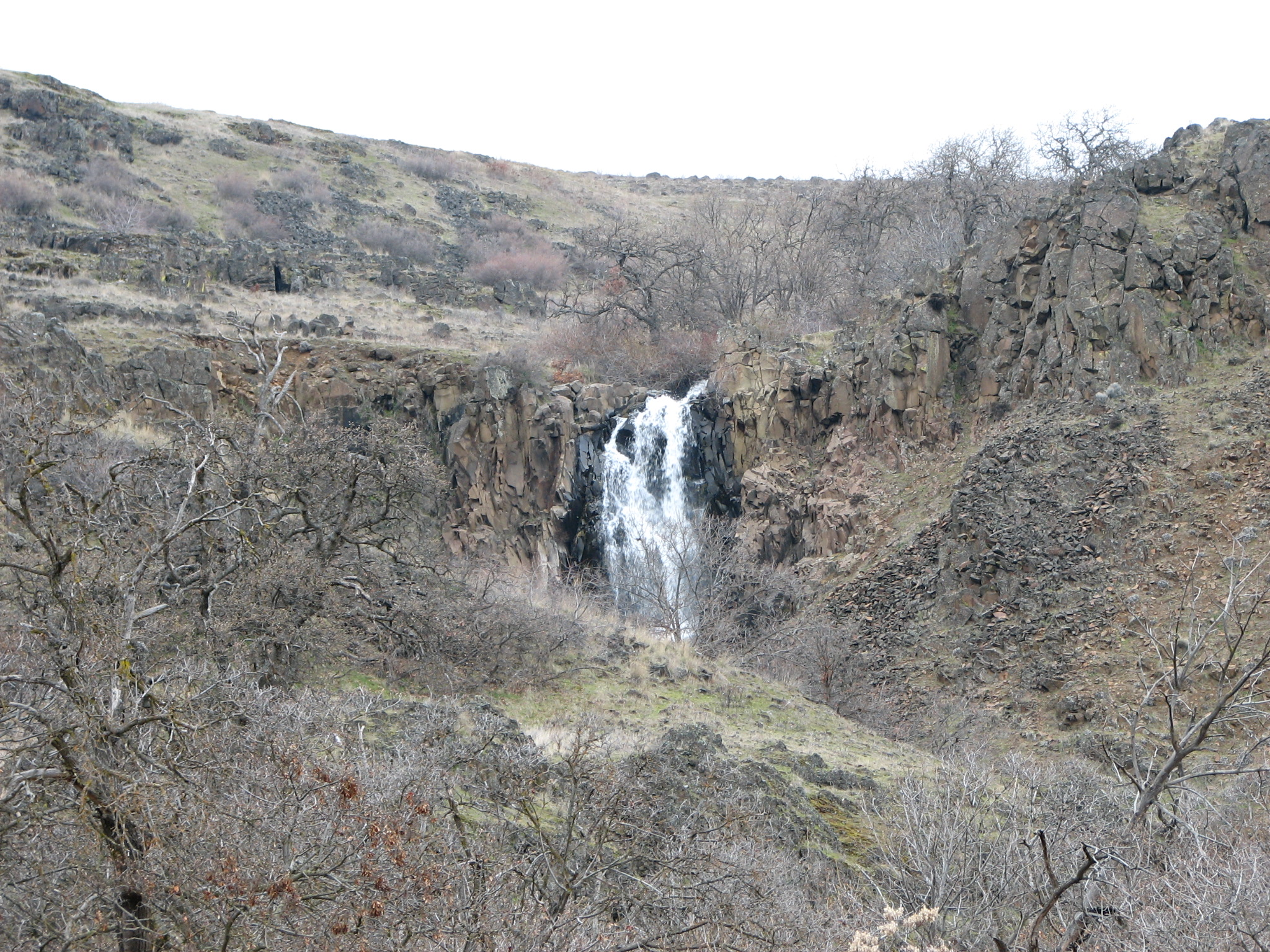 A waterfall in Columbia Hills State Park, Washington, United States.